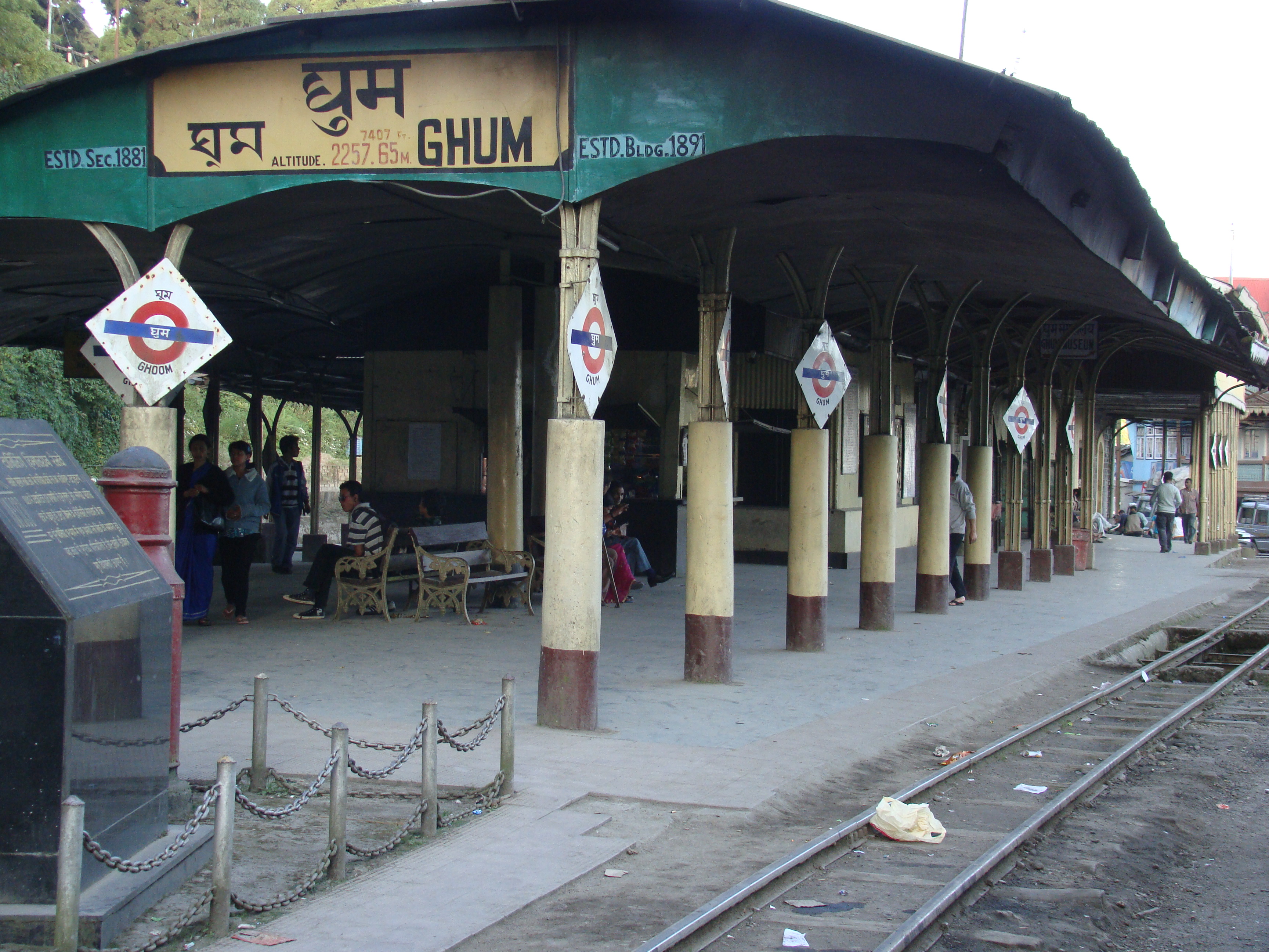 Ghum, railway station at 2257m (7407 ft), the highest point of Darjeeling Himalayan Railway